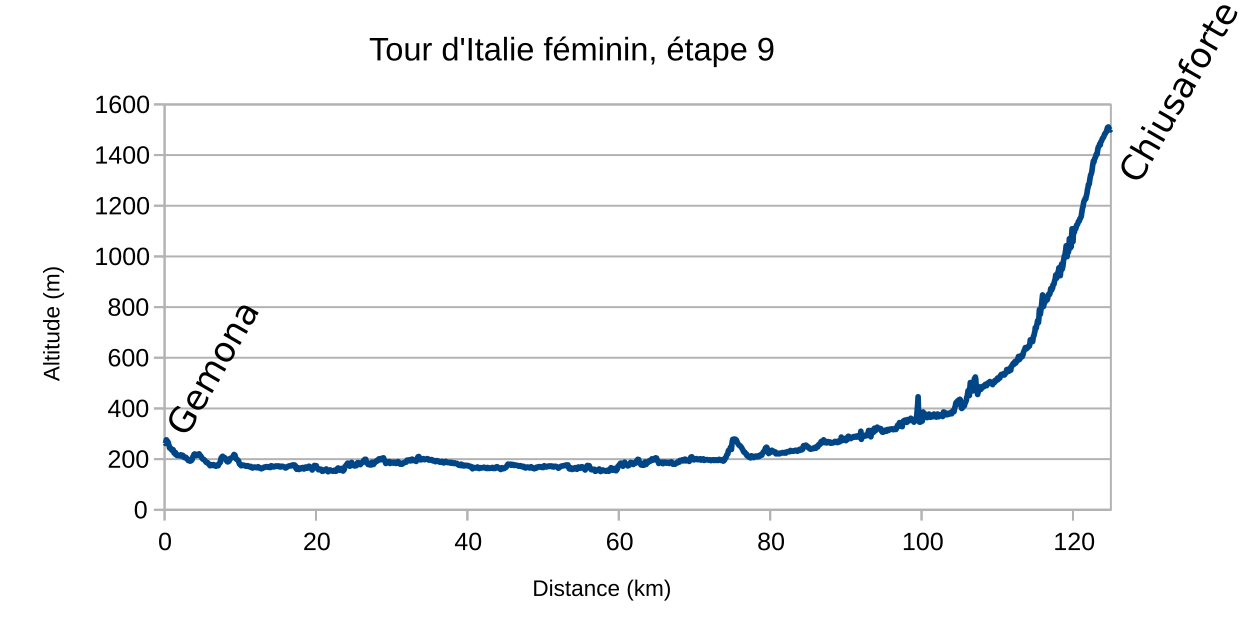 Profile of stage 9 from Giro donne 2019